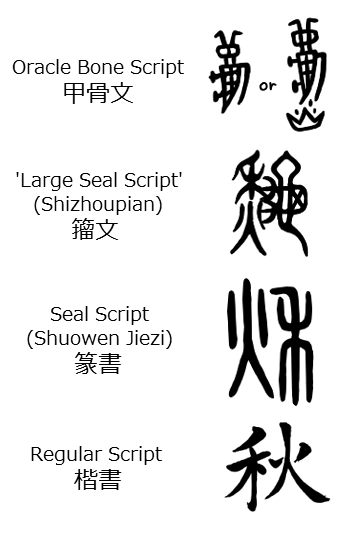 Comparison of the oracle bone script, seal script and regular script characters for 'autumn' (秋).